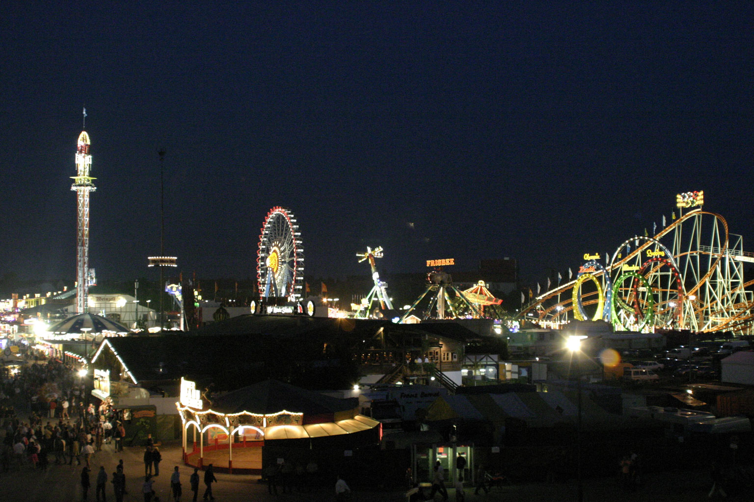 Oktoberfest MünchenGeneral overview by night